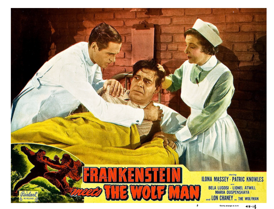 Colored lobby card for Frankenstein Meets the Wolfman (Universal, 1943), featuring Lon Chaney Jr. as Lawrence Talbot and Patric Knowles as Doctor Mannering. Image is assumed to be in the public domain as no copyright is in evidence.